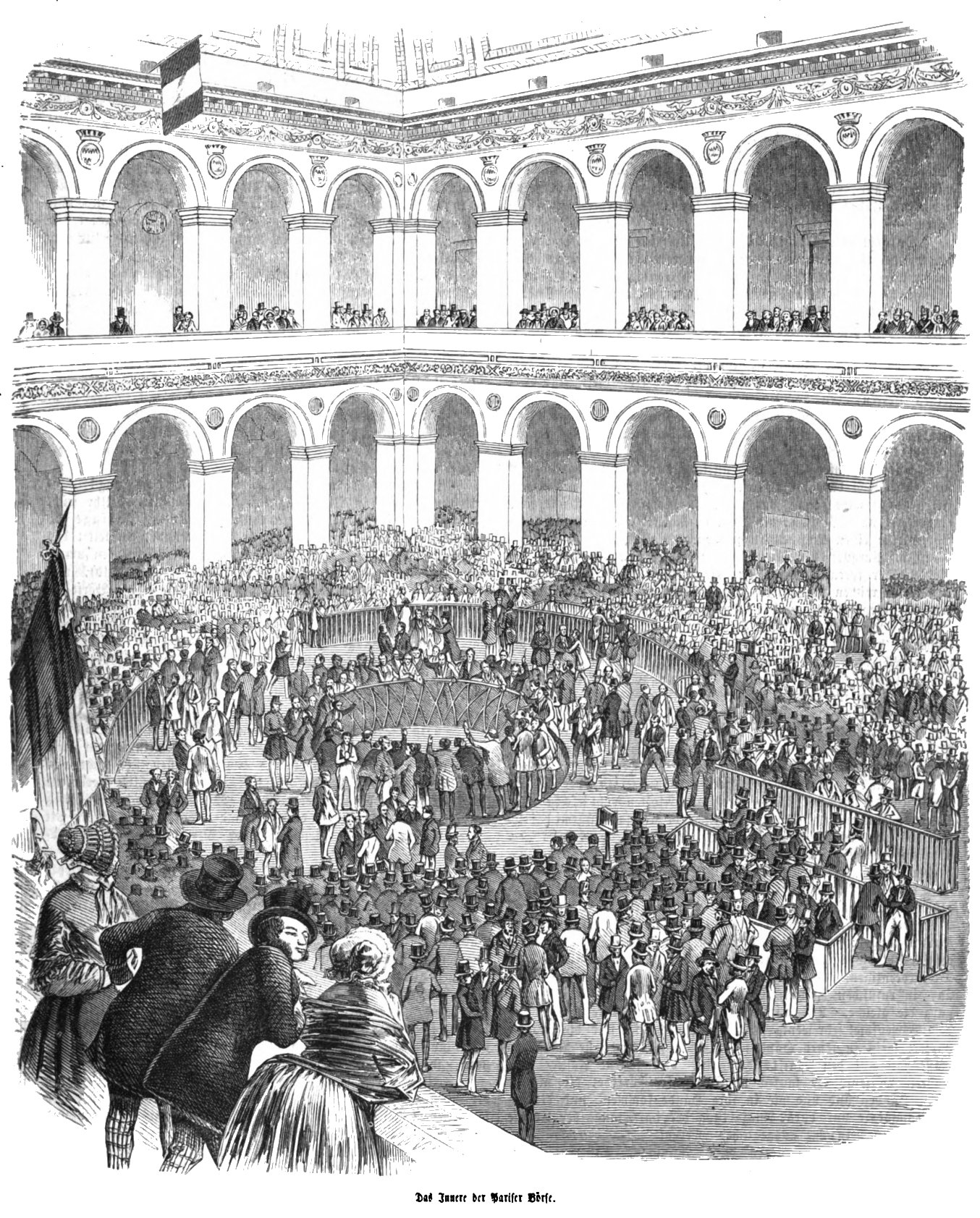 caption: "Das Innere der Pariser Börse."